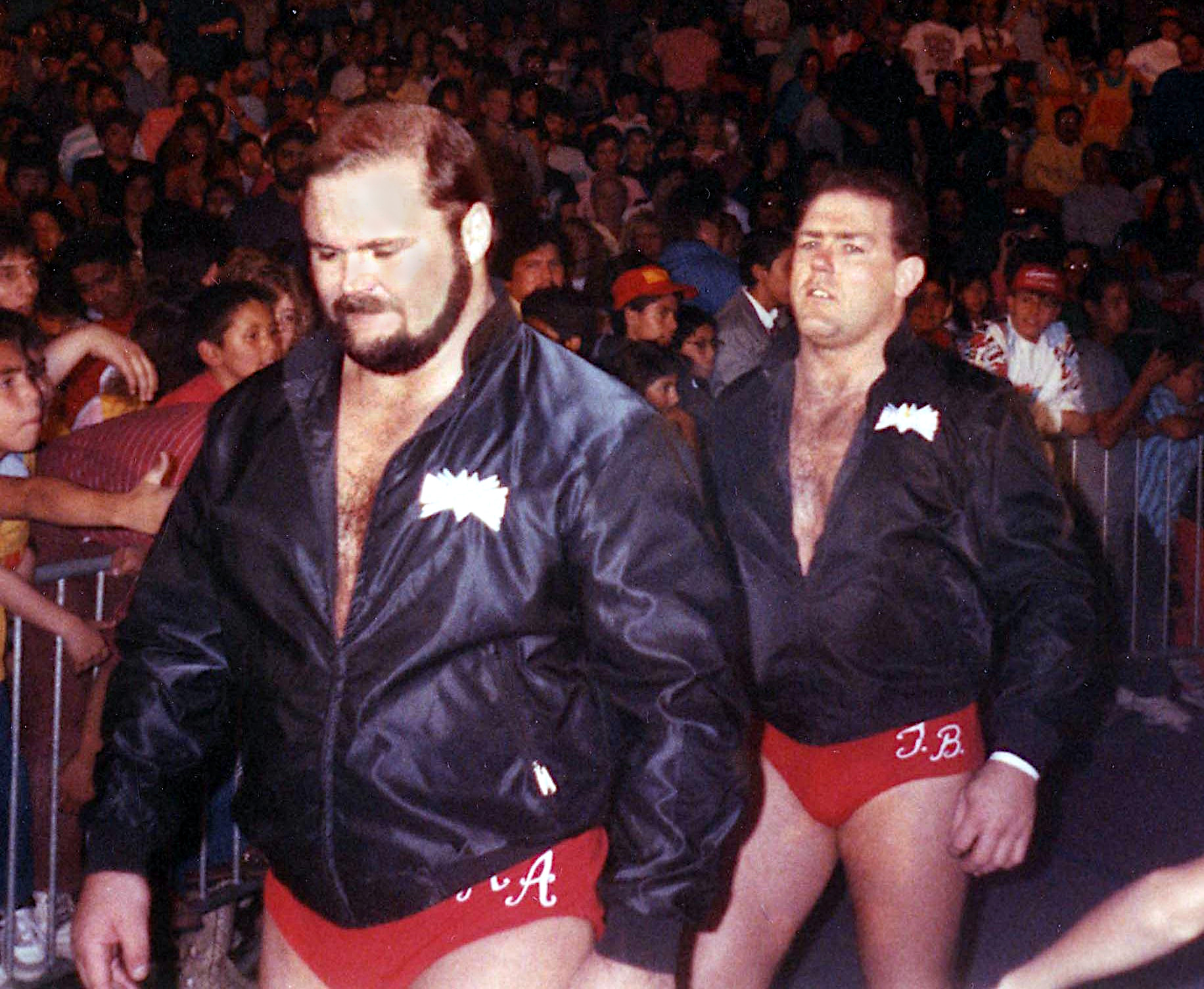 Professional wrestling tag team the Brain Busters (Arn Anderson and Tully Blanchard), key members of the Four Horsemen.